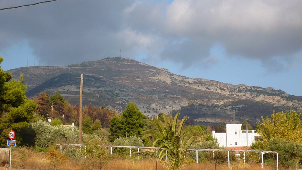 The picture depicts the Penteli Mountain.